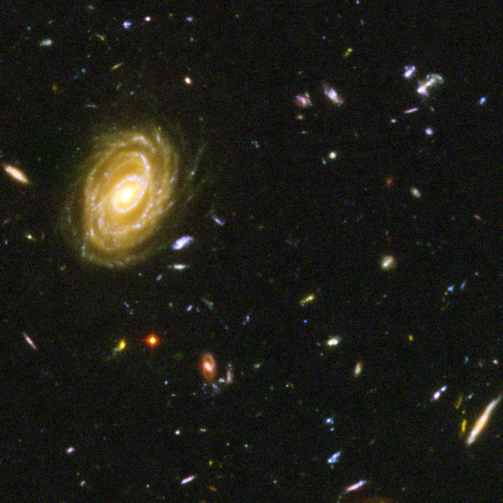 Part of the Hubble Ultra Deep Field